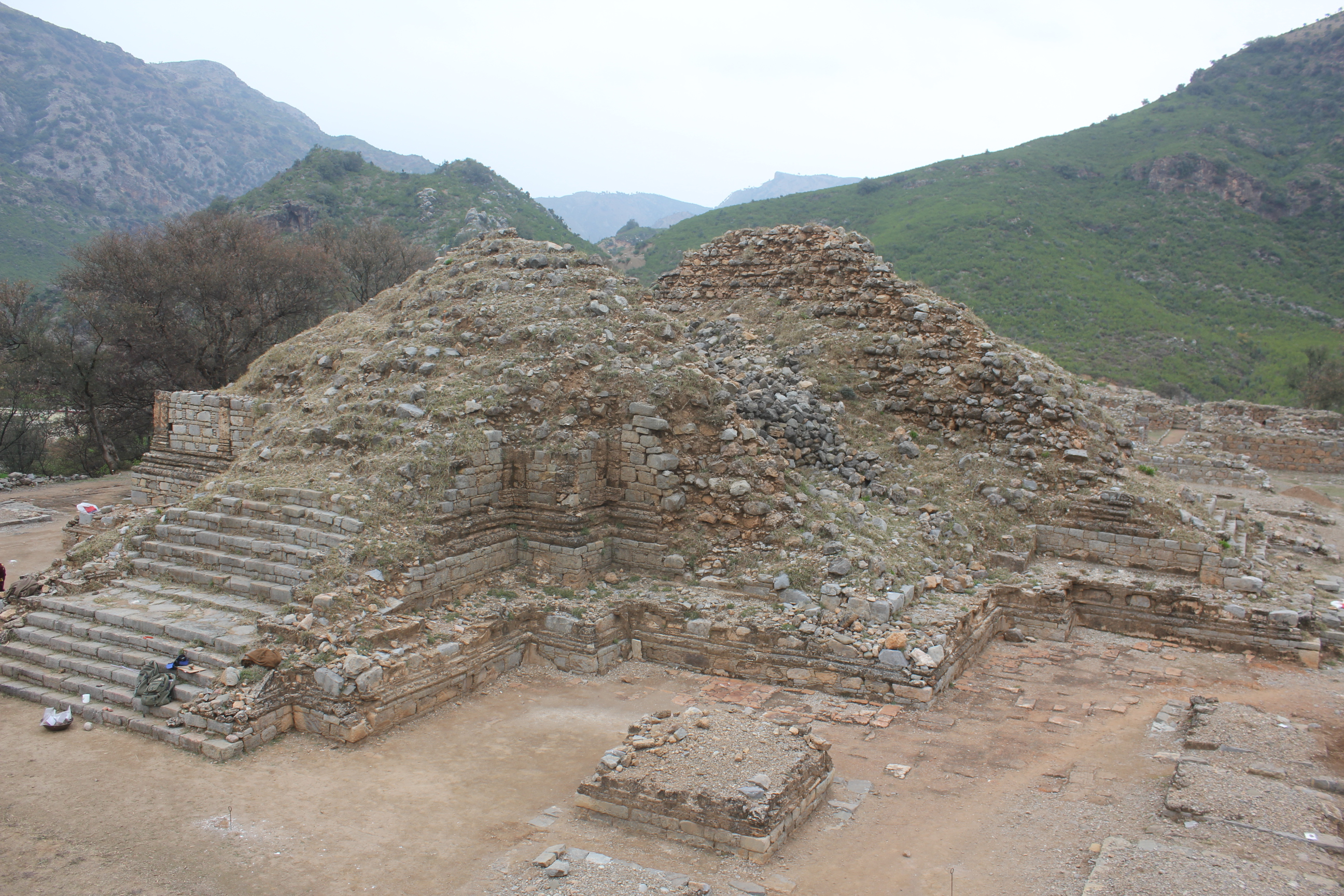 Bhamala Stupa site This is a photo of a monument in Pakistan identified as the KPK-17